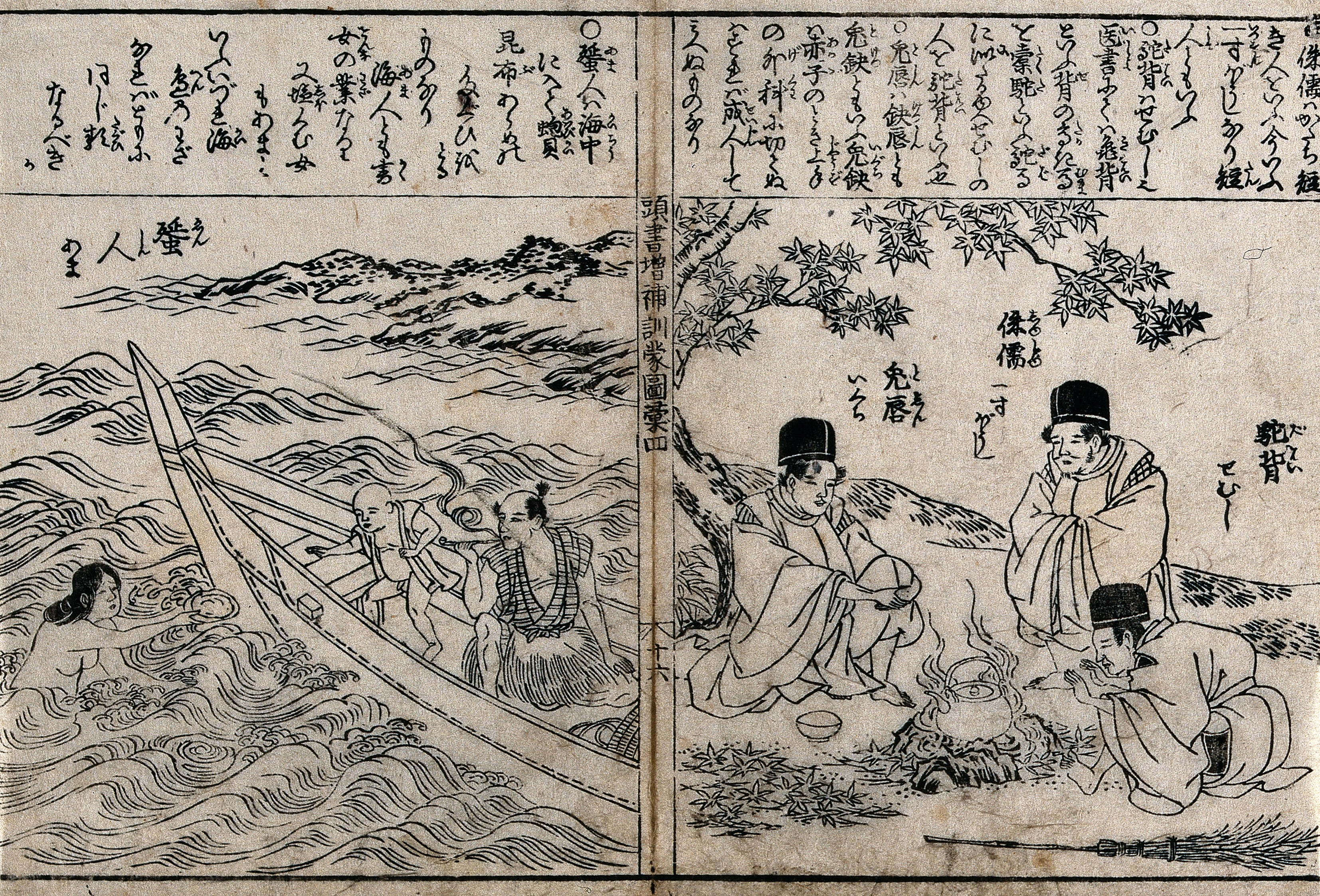 Left, a naked female diver hands an awabi (haliotis gigantea) shell to a man and a boy waiting in a boat; right, three men with deformities sit around a fire Iconographic Collections Keywords: People; Fire; Japanese; Shusui Shimokobe; Fishing; Sea; Japan; Diver